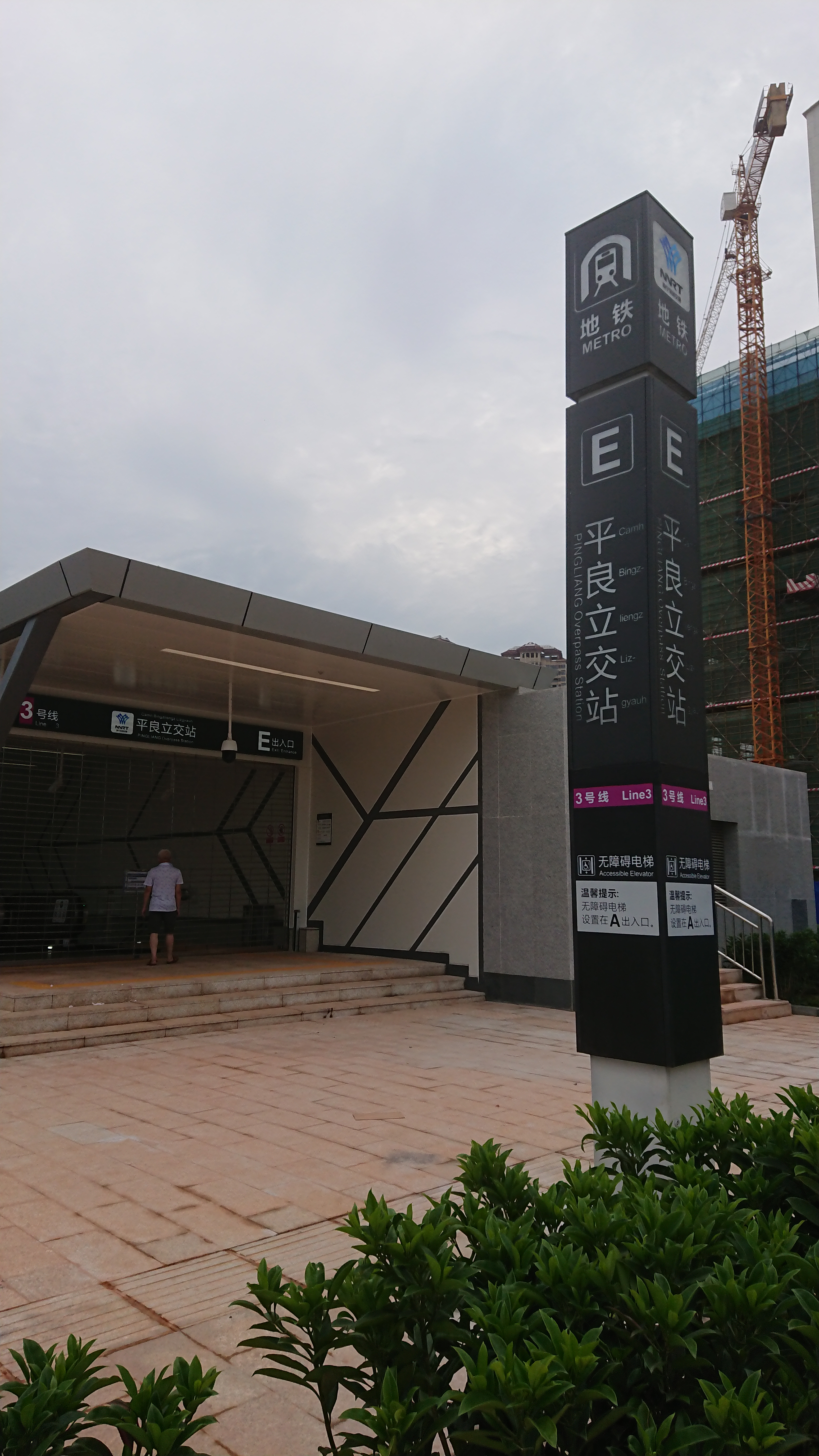 Naning Metro Line 3 - PingLiang Overpass Station's E-Exit Entrance Overview.